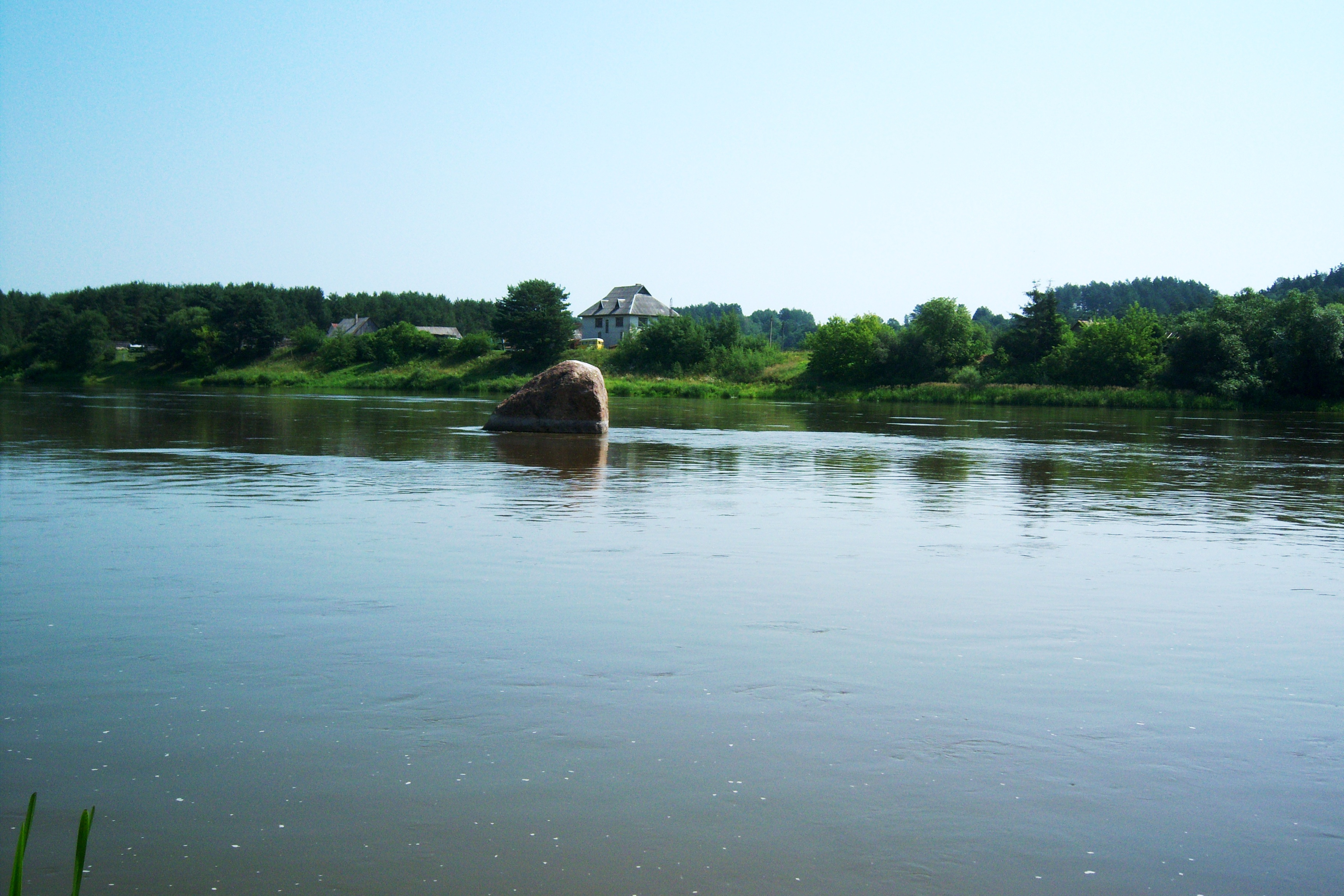 Boulder of Gaidelis in Neris River, Jonava district, Lithuania